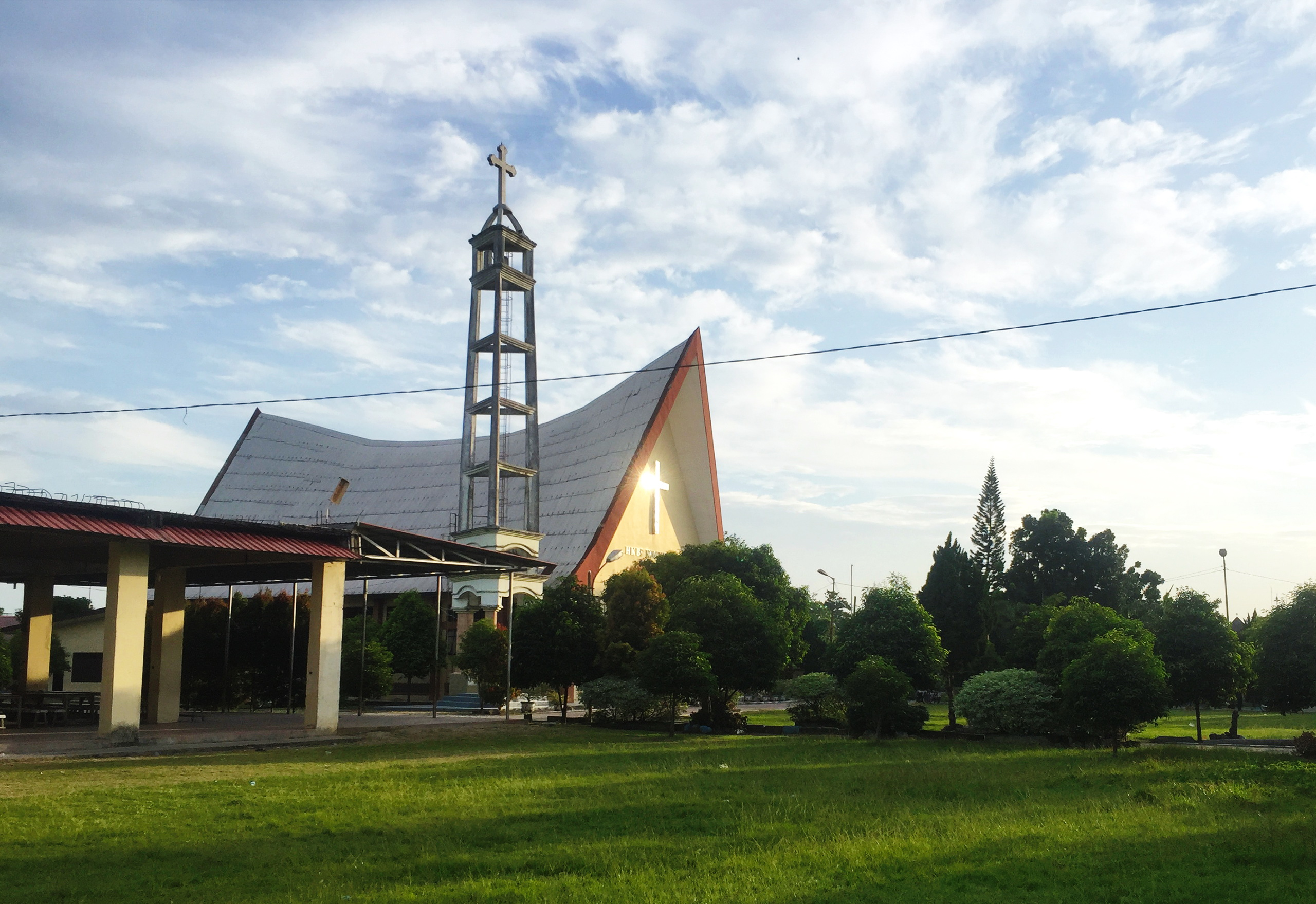 HKBP Nommensen Pulu Brayan, church in Pulo Brayan Bengkel Baru, Medan Timur, Medan